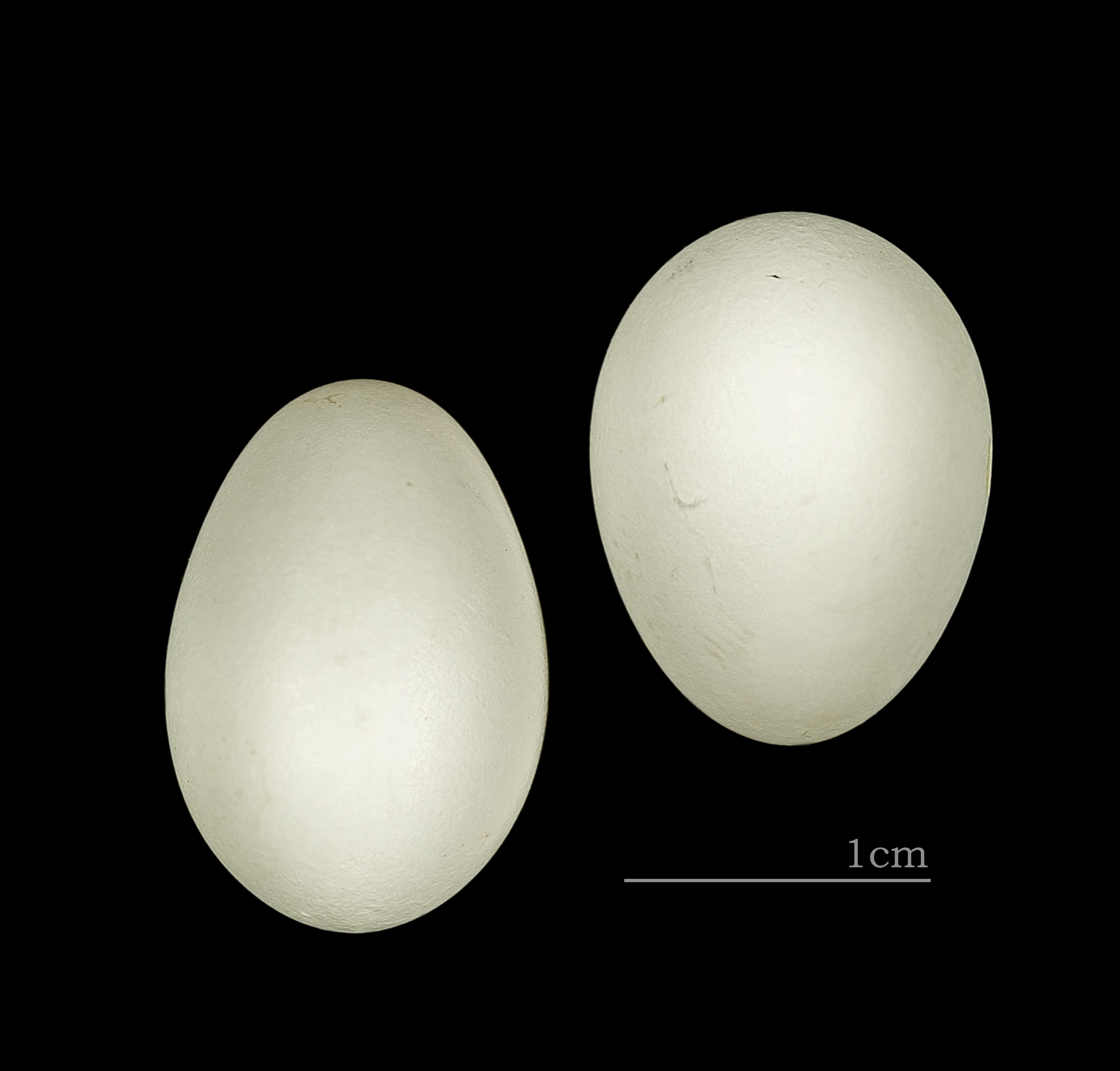 Egg of Hooded Siskin. Collection of Jacques Perrin de Brichambaut.